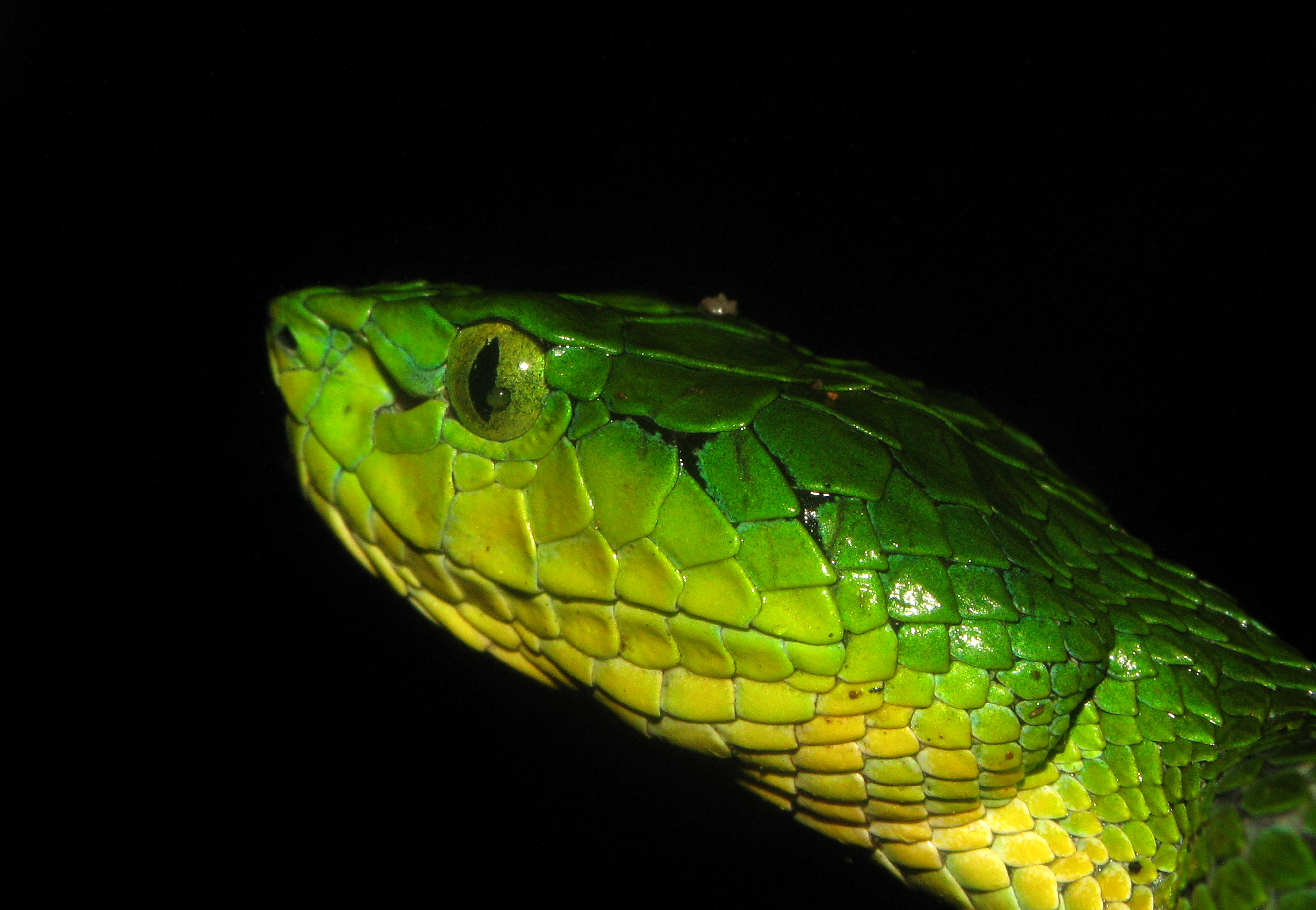 Close up of Head from KMTR